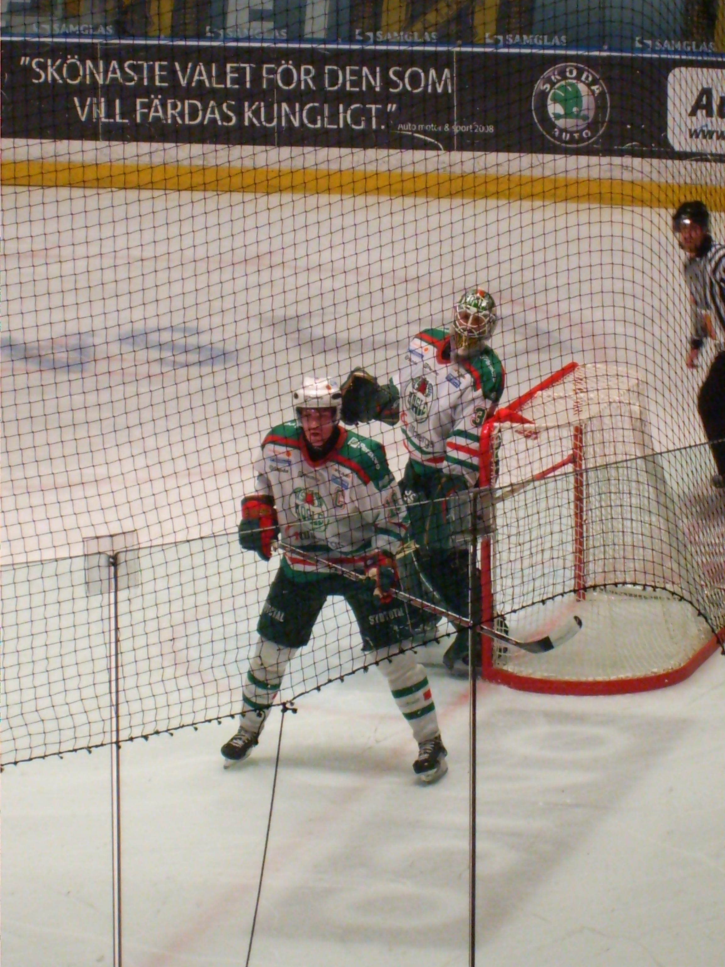 Ice players from Rögle BK, Sweden